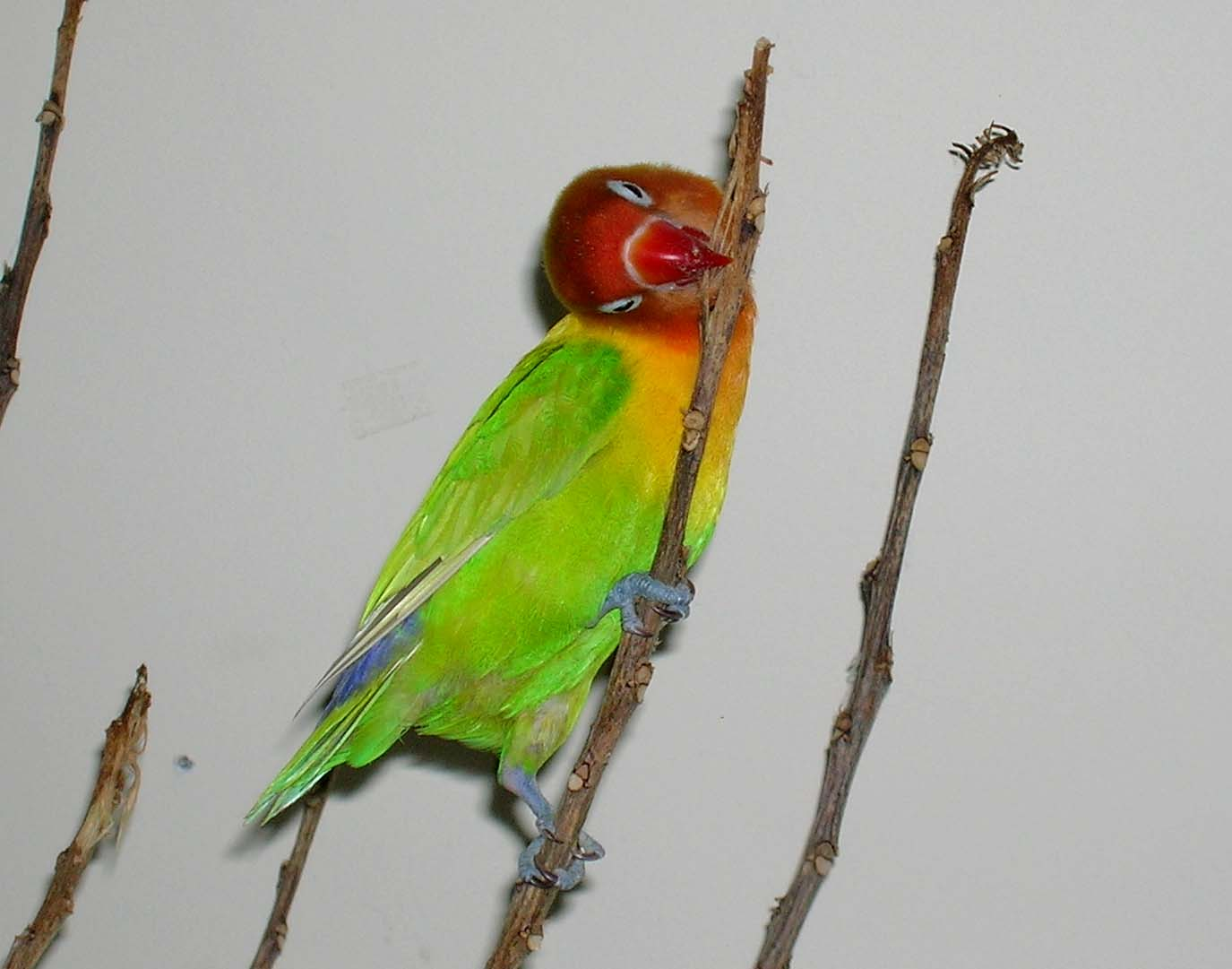 Lovebirds (Fischer's lovebird) are very active and love to chew things, such as this stick.